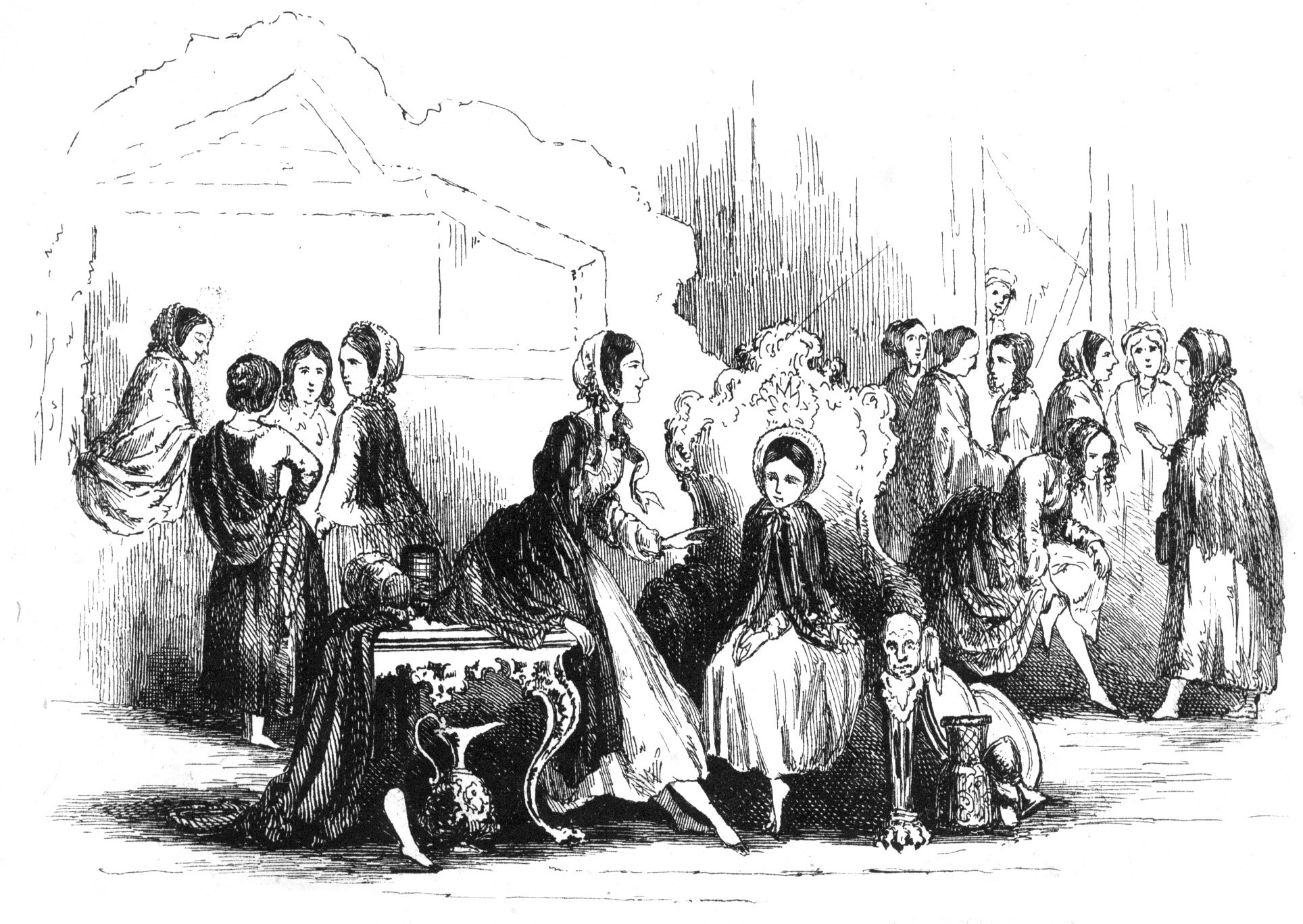 Charles Dickens: Little Dorrit. With Illustrations by H. K. Browne.